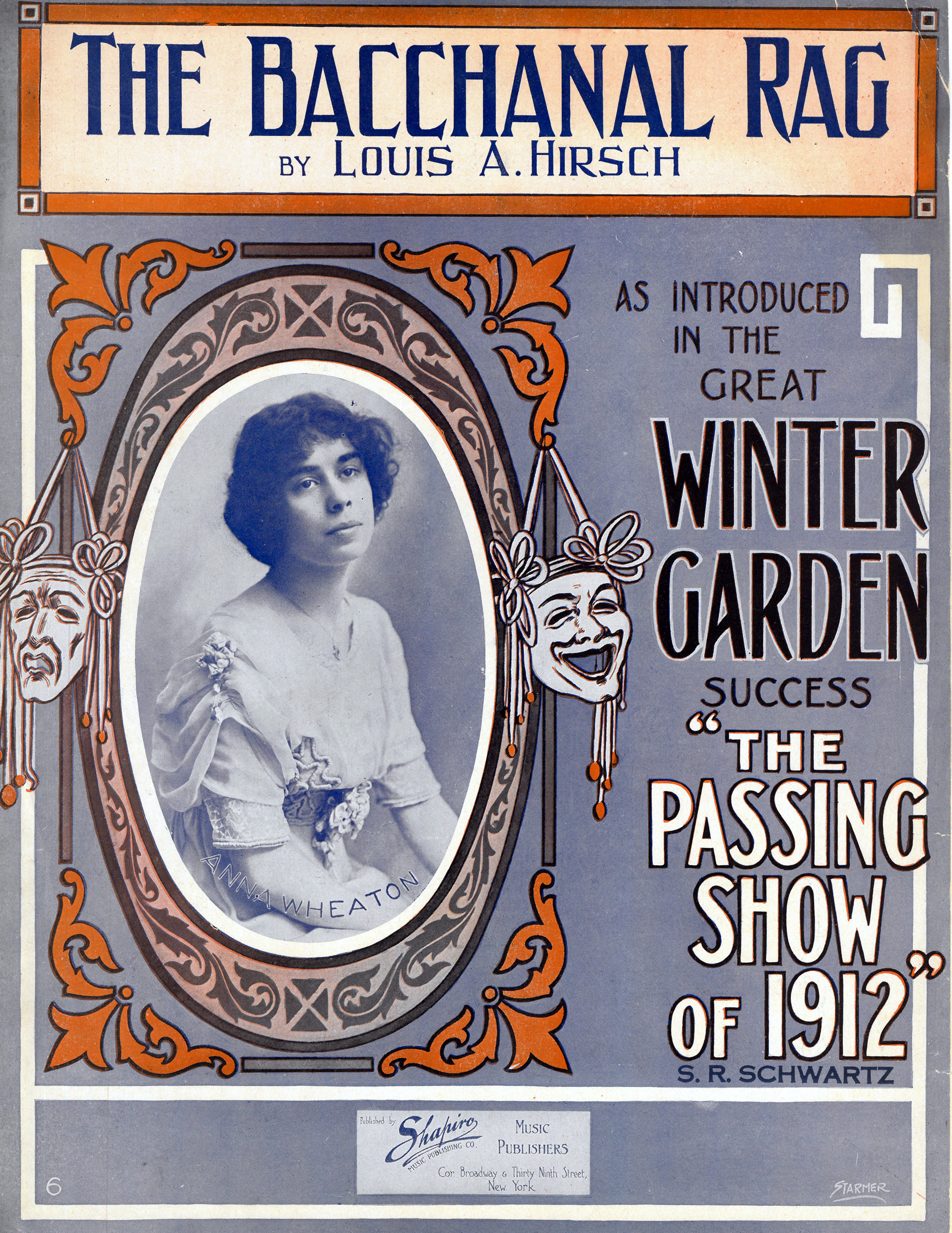 Cover of sheet music of "The Bacchanal Rag" by Louis A. Hirsch, from "The Passing Show of 1912"